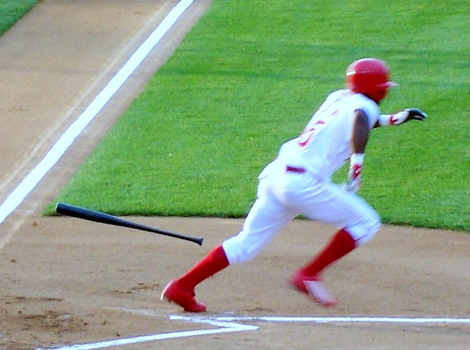 Michael Bourn